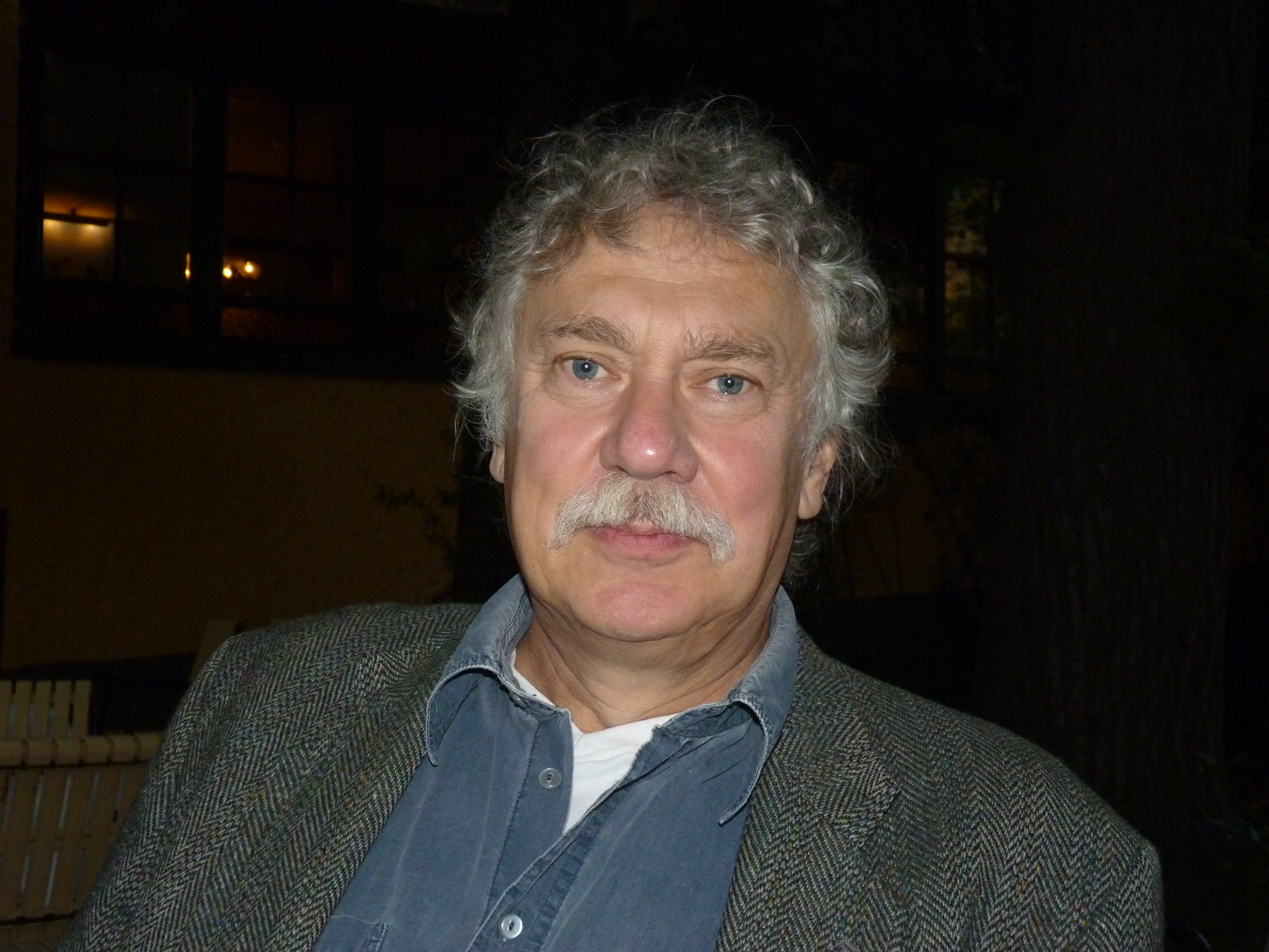 Actor, Author, Director for Stage and Dubbing